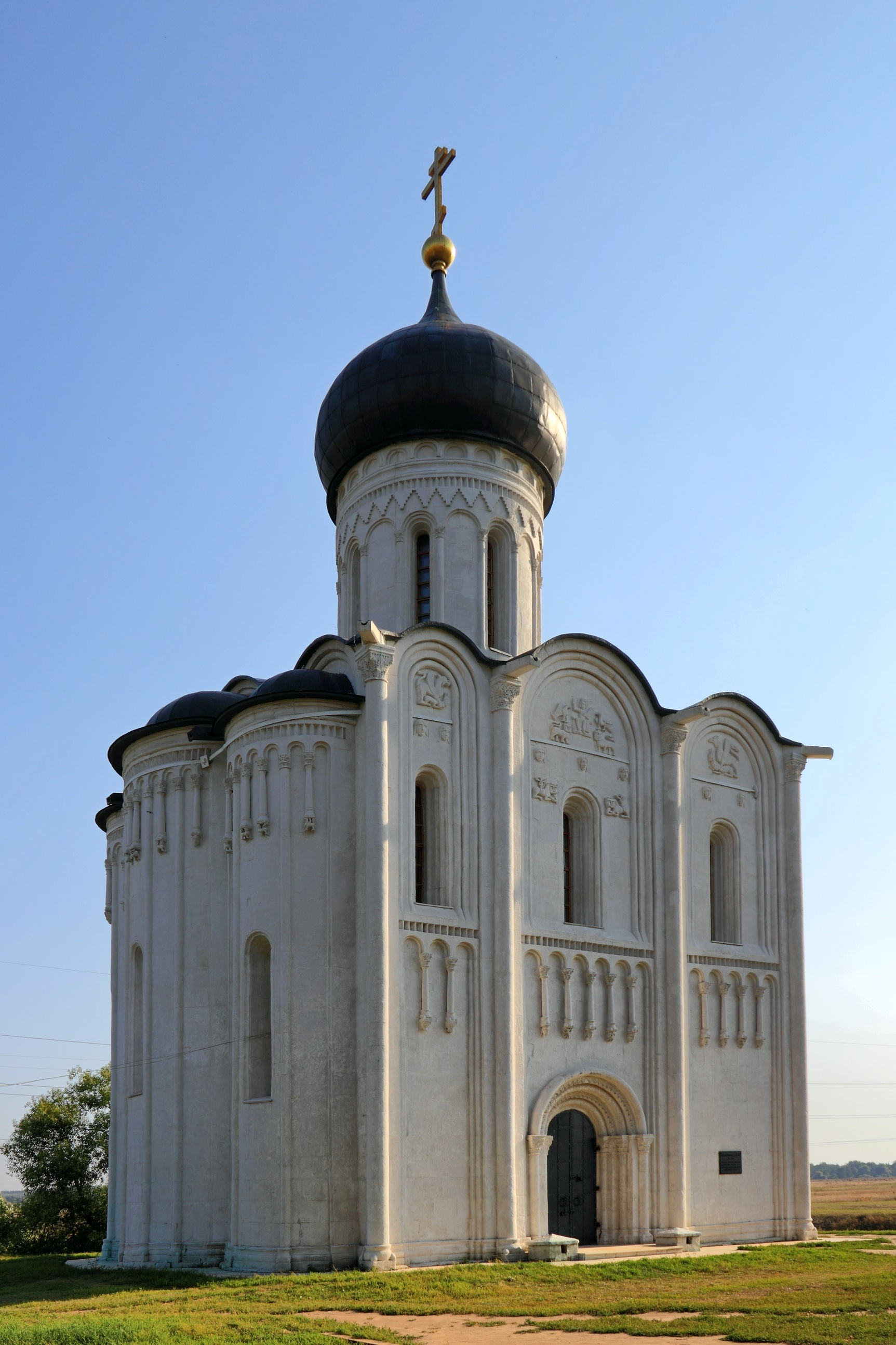 Bogolyubovo. Church of the Intercession on the Nerl Боголюбово. Церковь Покрова на Нерли